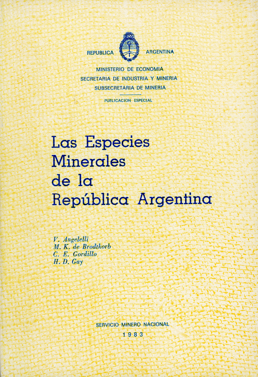 Cover of the book Las Especies Minerales de la República Argentina, de Angelelli, Brodtkorb, Gordillo and Gay, published in 1983